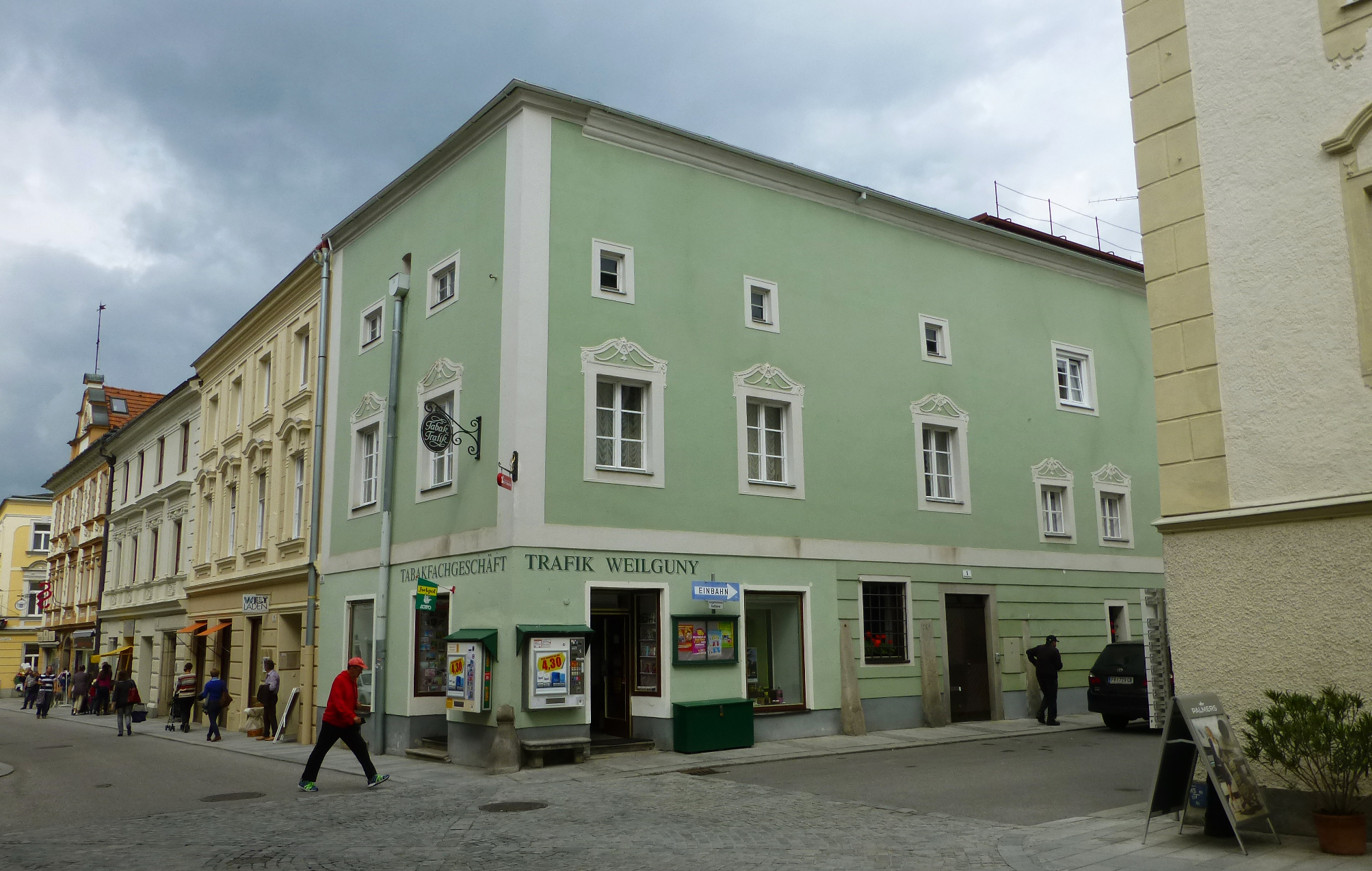 Heritage building, Pfarrgasse n° 14, Old town of Freistadt (Upper Austria).